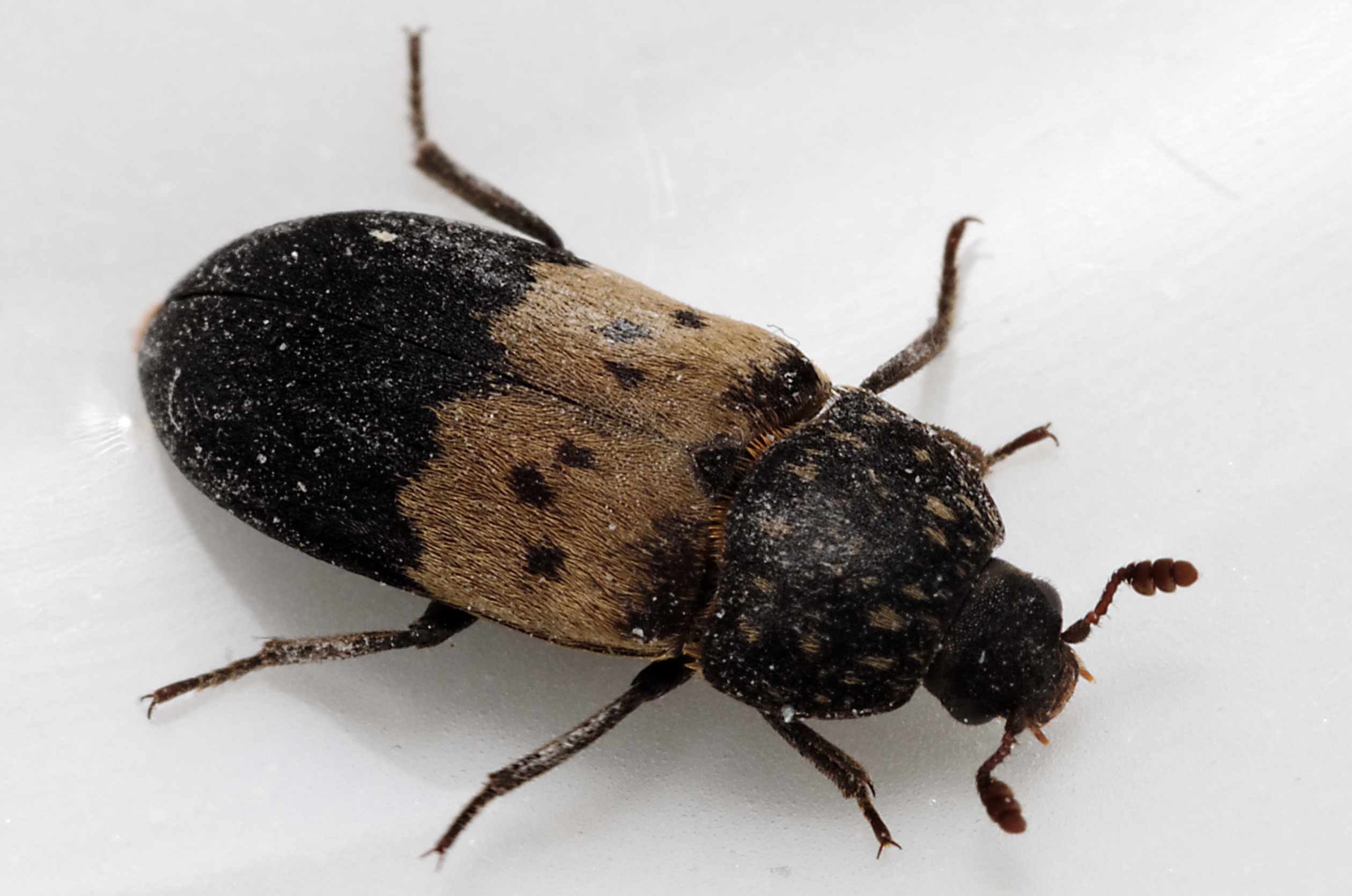 Larder Beetle (Dermestes lardarius)